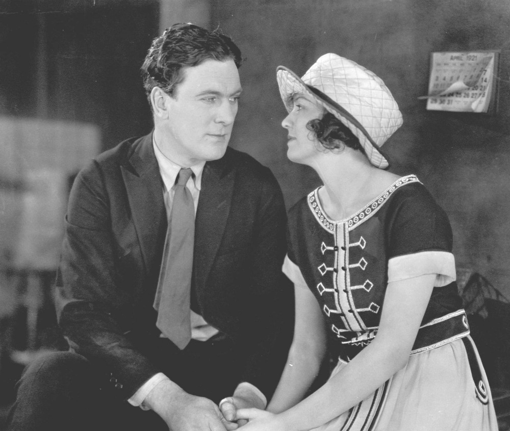 Thomas Meighan and Doris Kenyon in The Conquest of Canaan (1921) - cropped screenshot